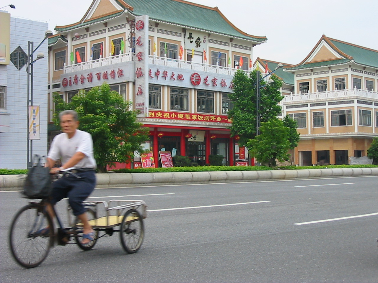 Dick Real is the photographer.